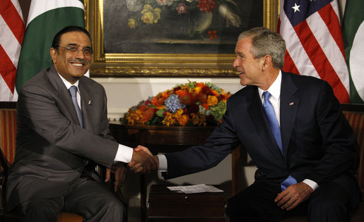 President George W. Bush shakes hands with President Asif Ali Zardari of Pakistan during their meeting Tuesday, Sept. 23, 2008, at The Waldorf-Astoria Hotel in New York. Said President Bush, "Pakistan is an ally, and I look forward to deepening our relationship... Your words have been very strong about Pakistan's sovereign right and sovereign duty to protect your country, and the United States wants to help."